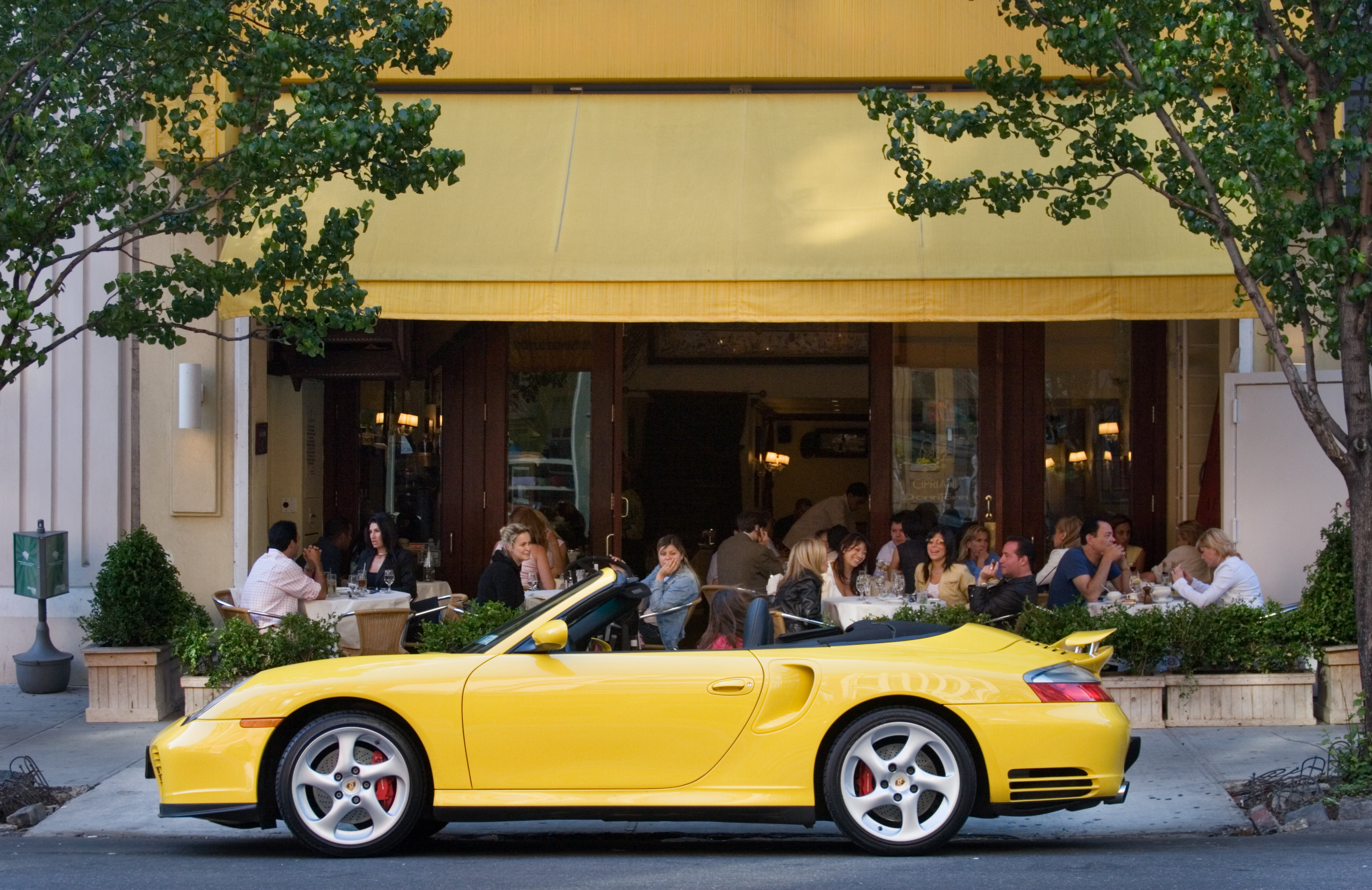 A yellow Porsche in Soho. New York City 2005Restaurant is Cipriani Downtown, 376 West Broadway